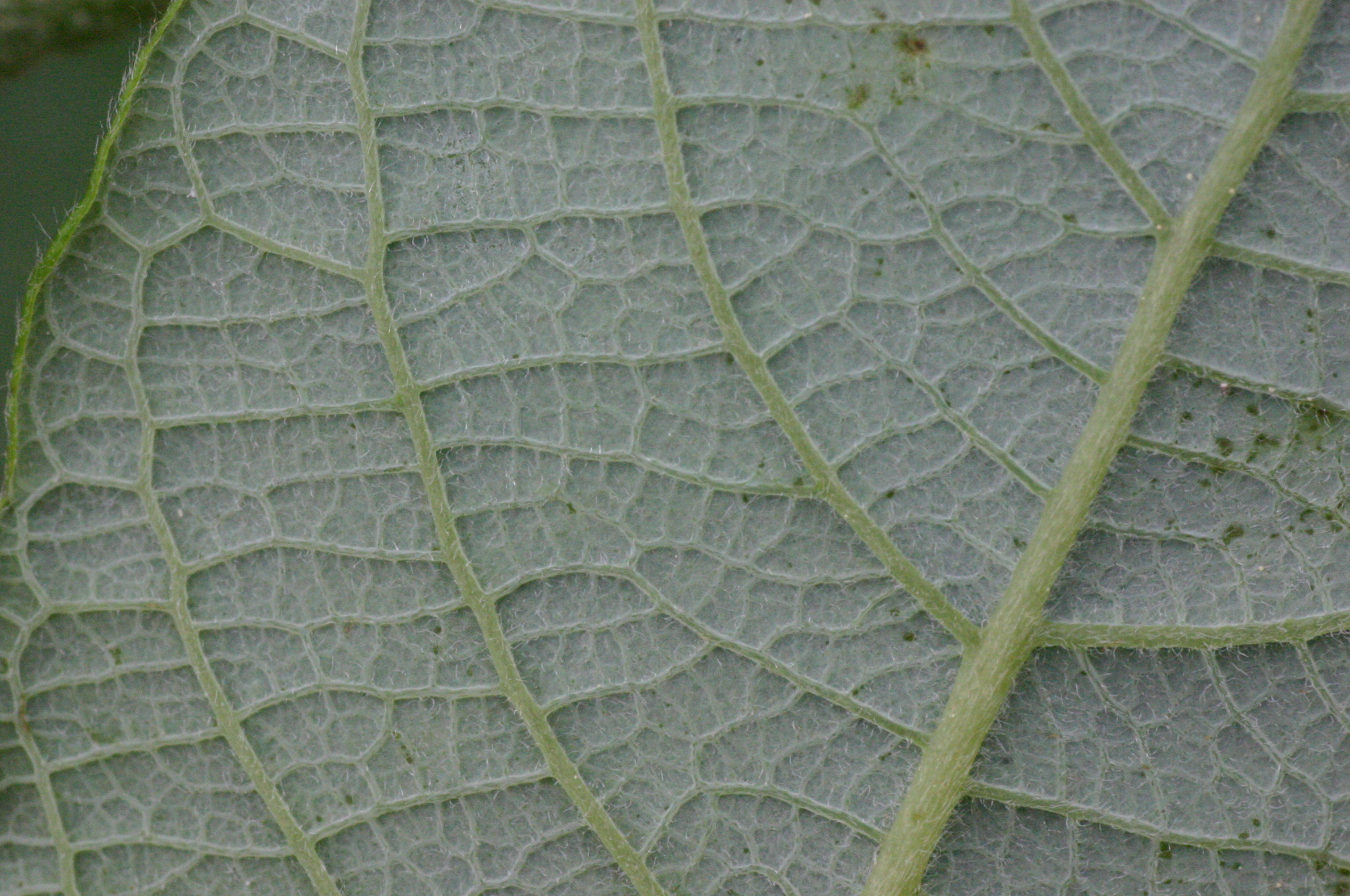 Salix appendiculata